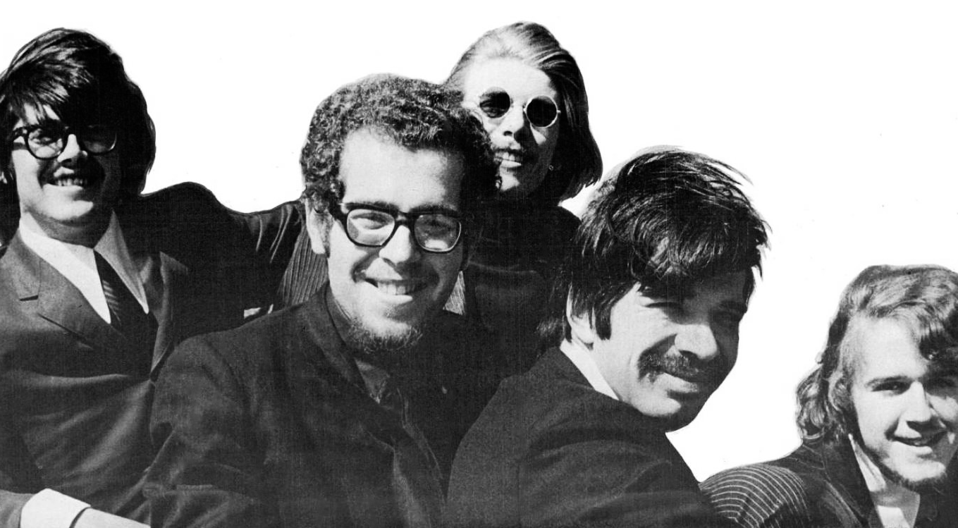 Trade ad for The Free Spirits's single "Tattoo Man". To better adapt it to his respective Wikipedia article, the ad was cropped and cleaned in a graphics editing program. The original can be viewed at the source below.